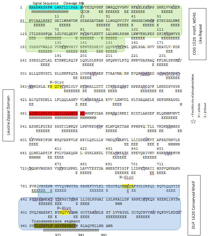 KIAA0090 Solved